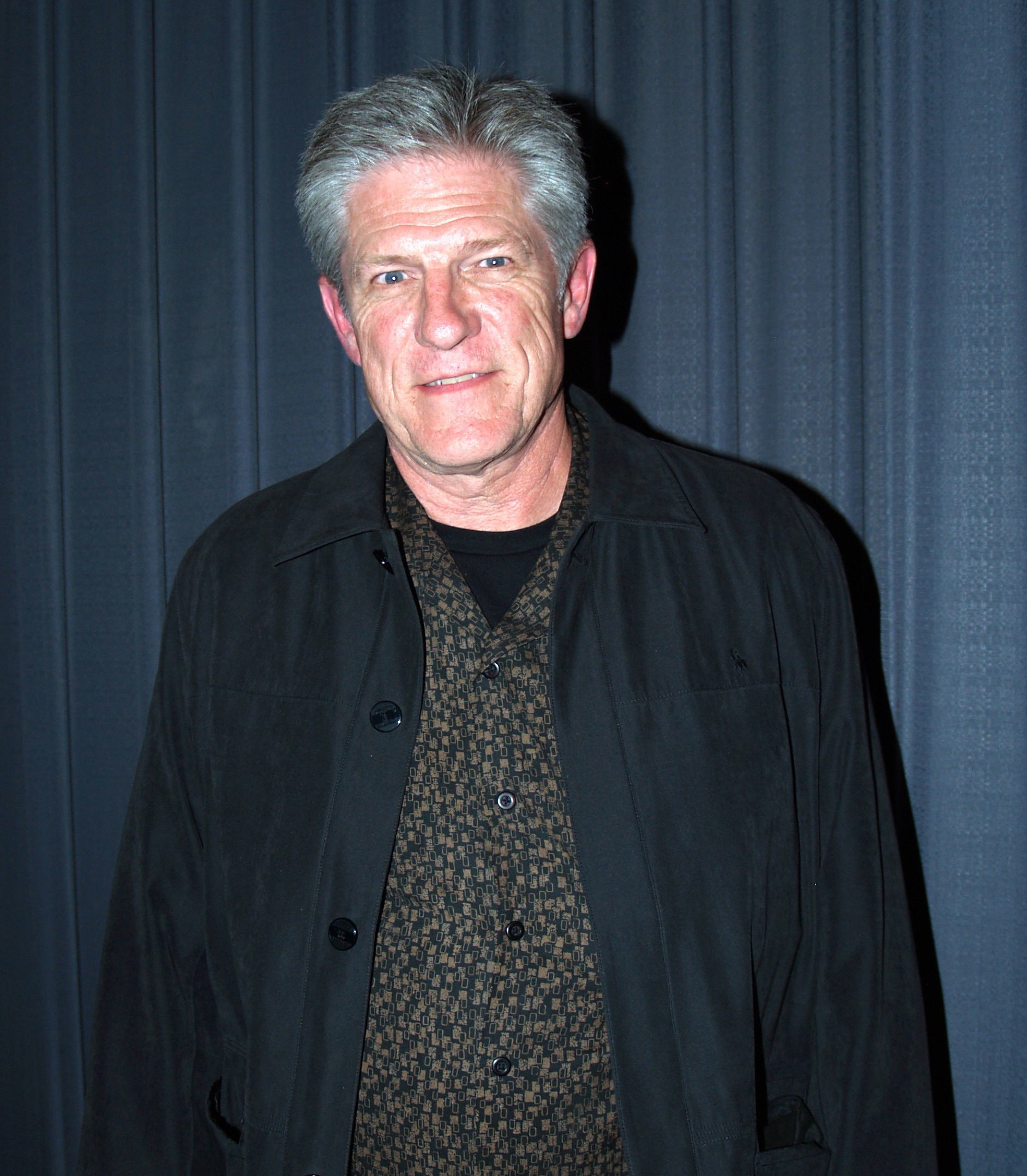 Oscar-nominated animator/director Bill Kroyer following a September 16, 2013 history of computer animation lecture by animator Tom Sito, at the SVA Theatre, which is part of Sito's alma mater, Manhattan's School of Visual Arts. This photo was created by Luigi Novi. It is not in the public domain, and use of this file outside of the licensing terms is a copyright violation.